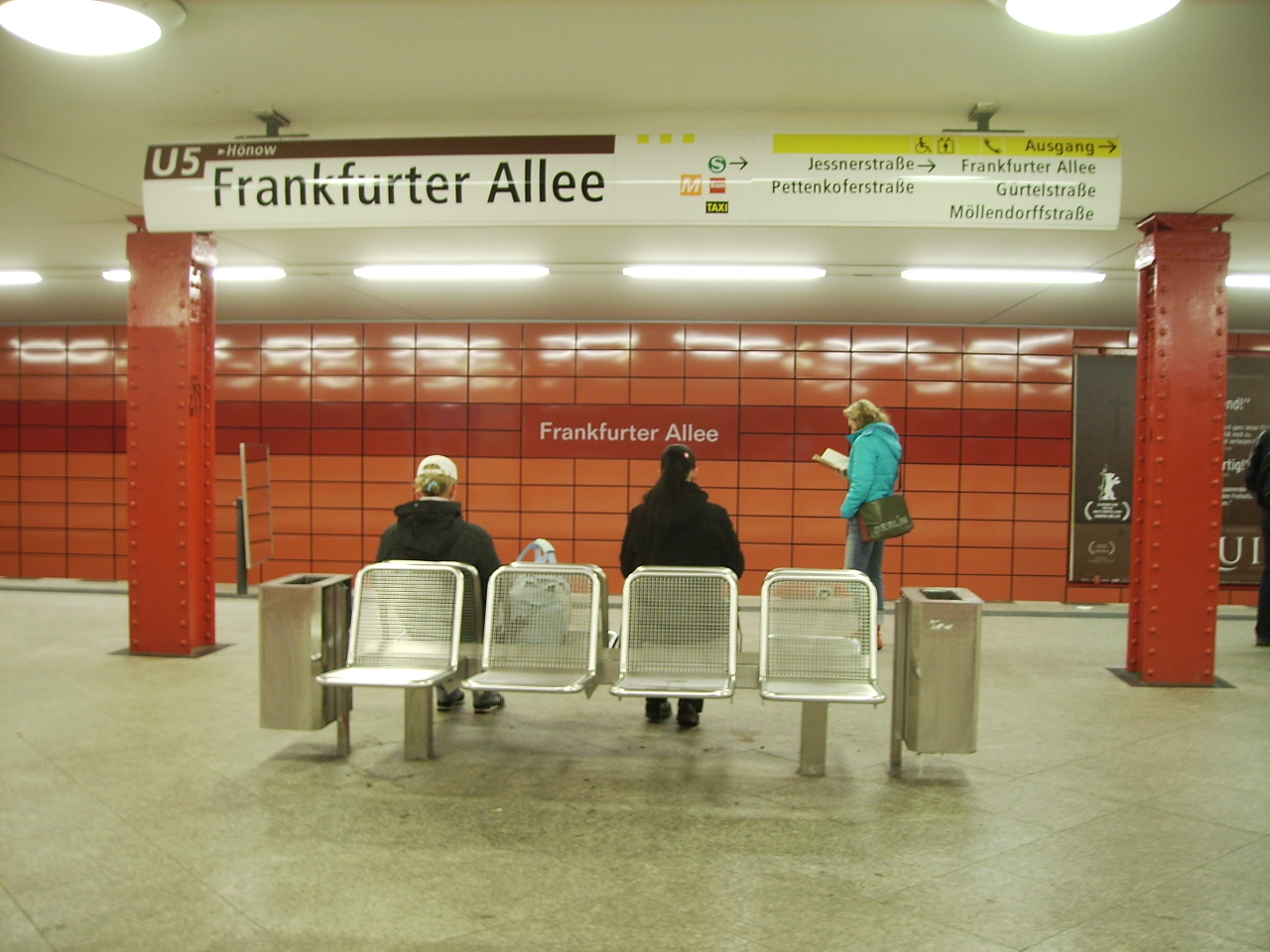 The Berlin U-Bahn station Frankfurter Allee, line U5